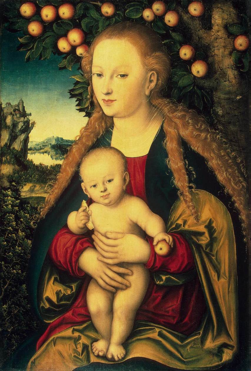 The Child Christ helds bread and apple in his hands. The apple is the symbol of the original sin, the bread (the body of Christ) of the redemption. The Virgin is considered to be the second Eve redempting the sin of the first.